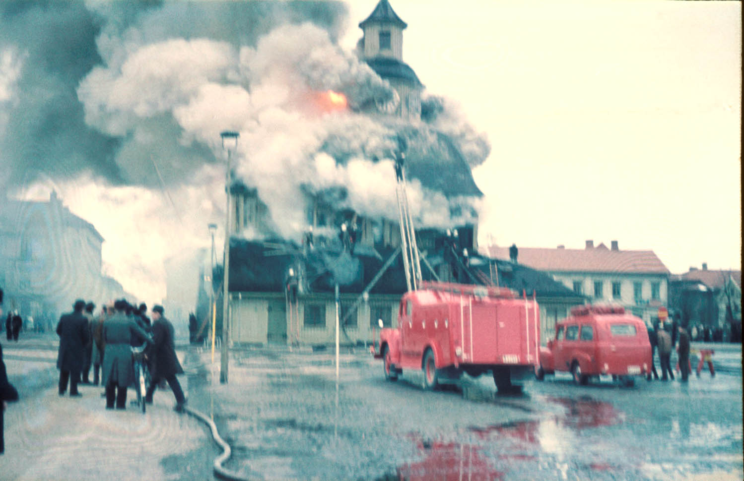 City Hall in Lidköping on fire